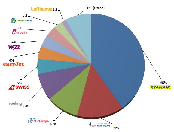 Bocadillo